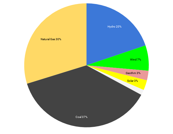 Data from